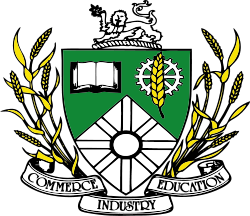 The seal of Saskatoon Canada